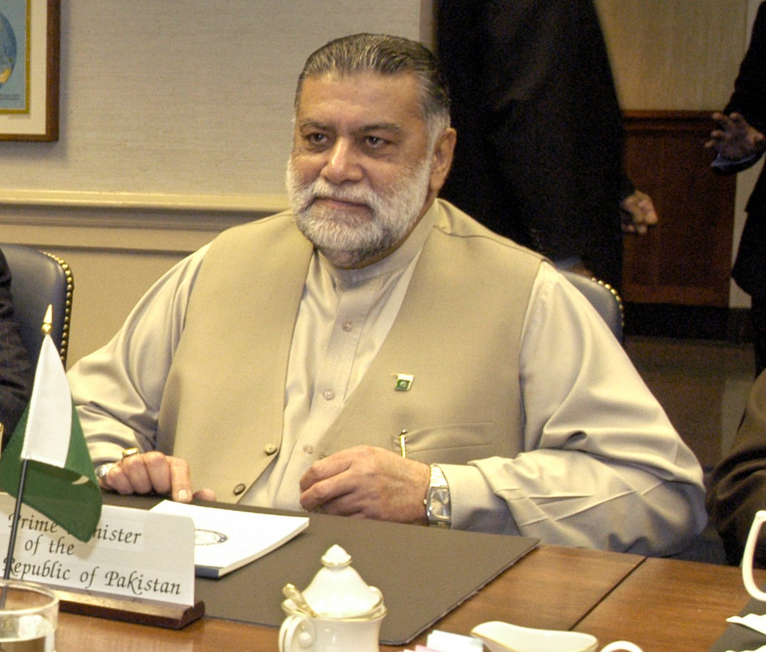 Pakistani Prime Minister Mir Zafarullah Khan Jamali (right) meets with Secretary of Defense Donald H. Rumsfeld (left foreground) at the Pentagon on Oct. 3, 2003. Under discussion is a broad range of bilateral security issues, many relating to the global war on terrorism, in which Pakistan is playing a significant role. Among others participating in the talks, on the Pakistani side, are Minister of Foreign Affairs Khurshid M. Kasuri (center) and Honorary Advisor to the Prime Minister Syed Sharifuddin Pirzada (seated at the left). DoD photo by R. D. Ward. (Released)